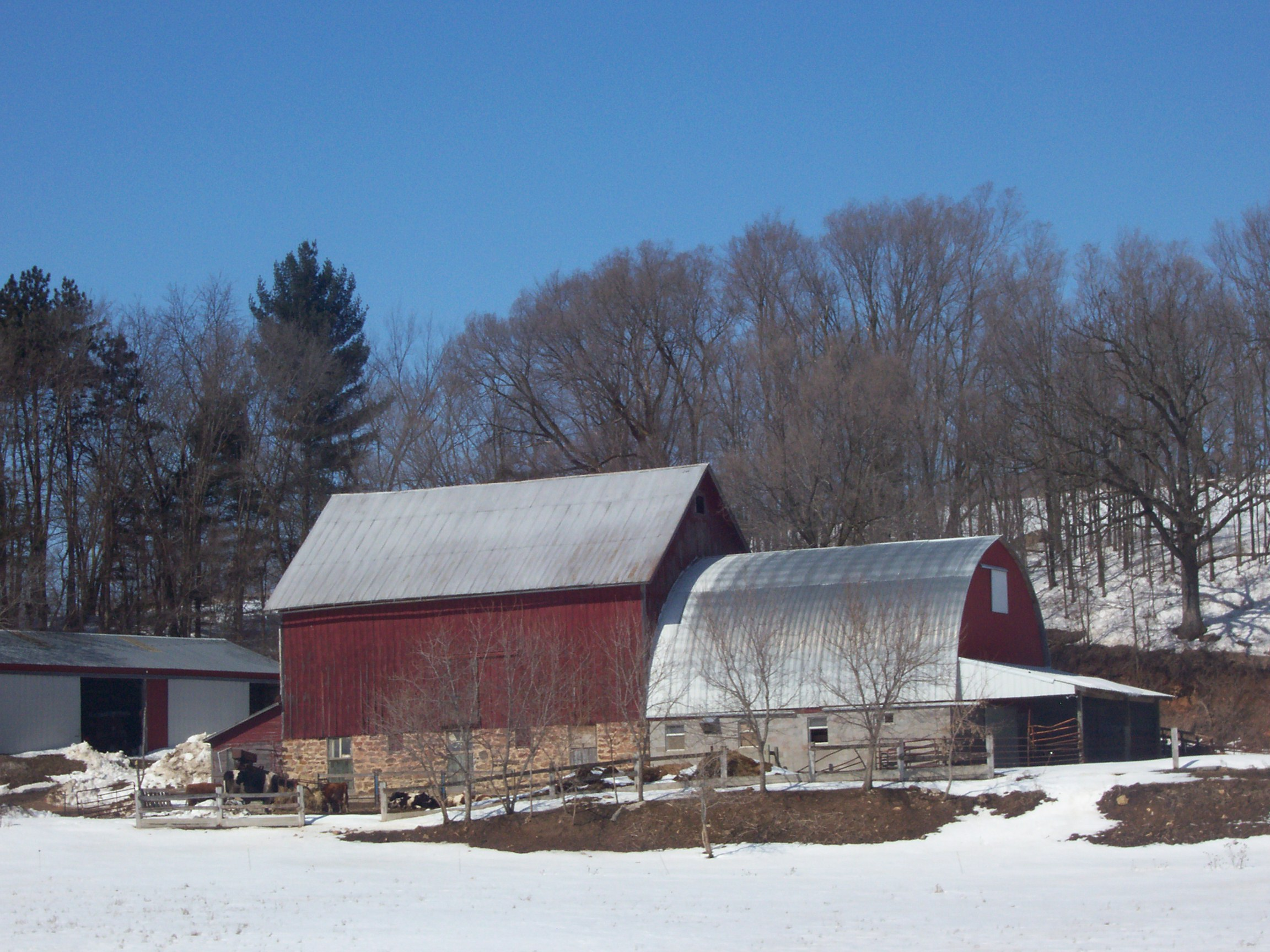 A farm in Sauk County, Wisconsin, USA near Reedsville. Taken March 11, 2007 by myself.